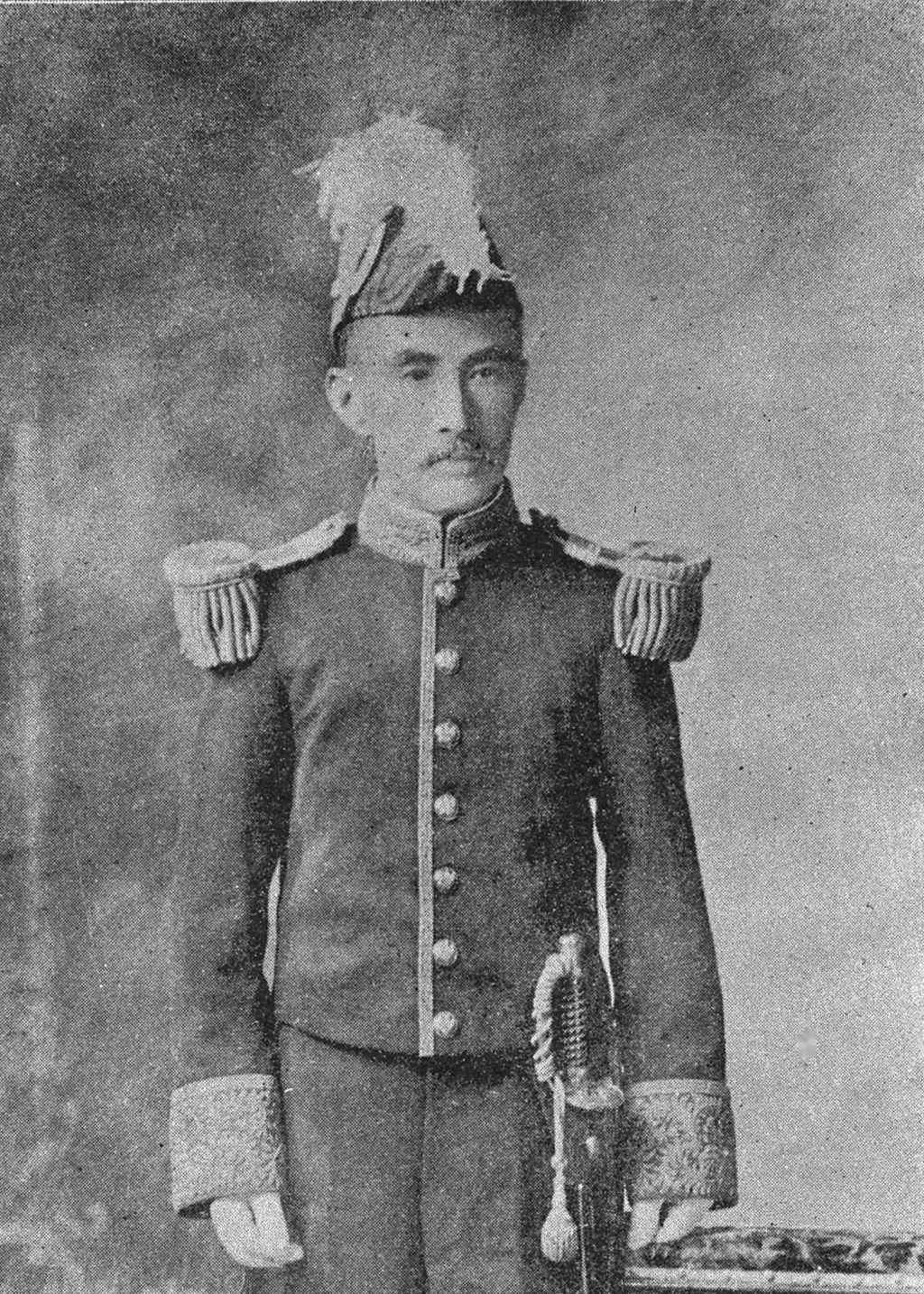 Portrait of Shiba Shigeri (斯波蕃, 1843 – 1907)